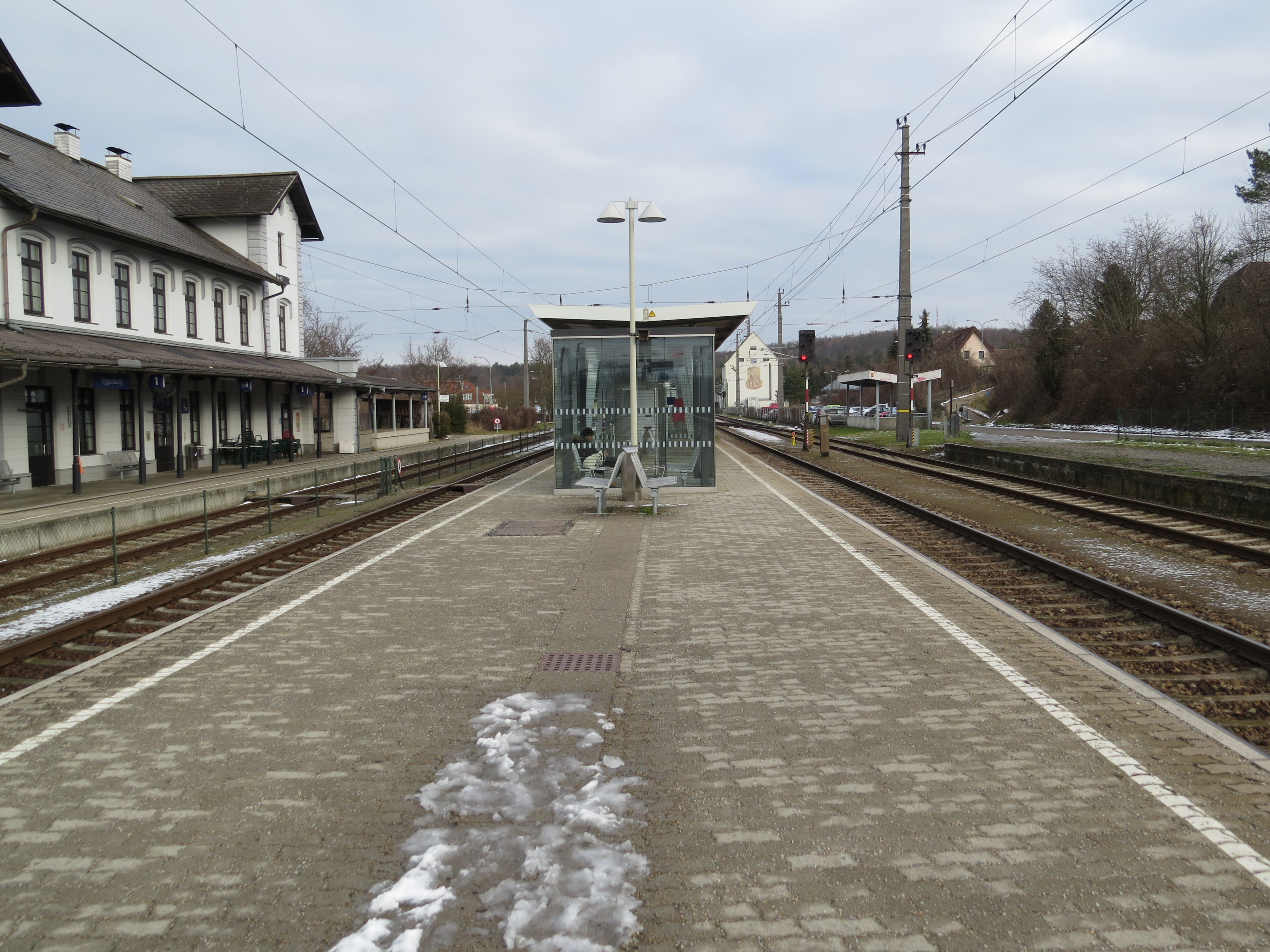 Train station platform at Bahnhof Eggenburg